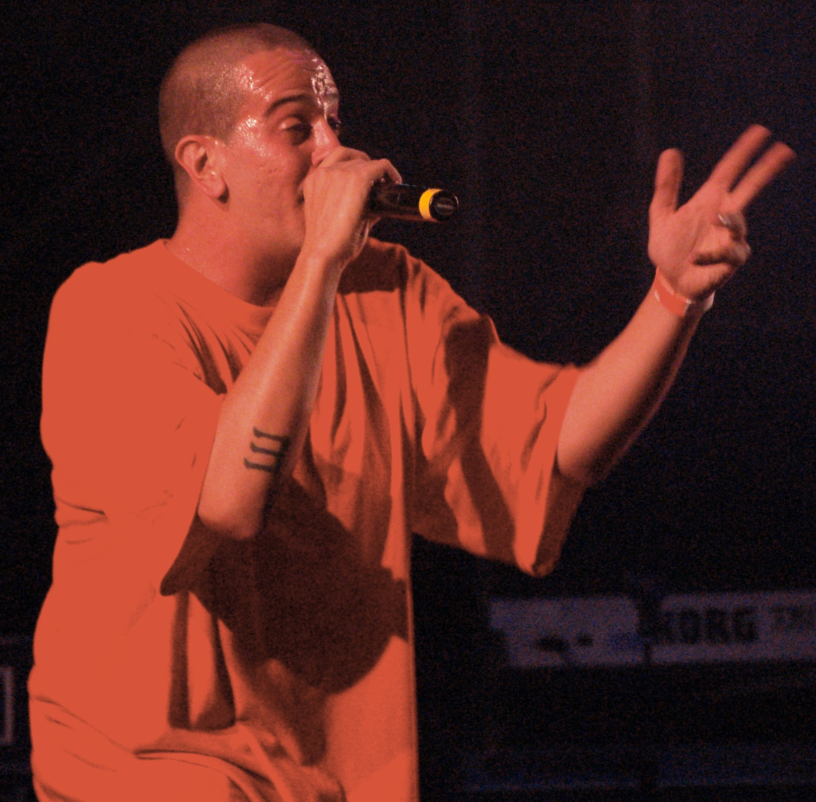 Tormento, a rapper from Italy